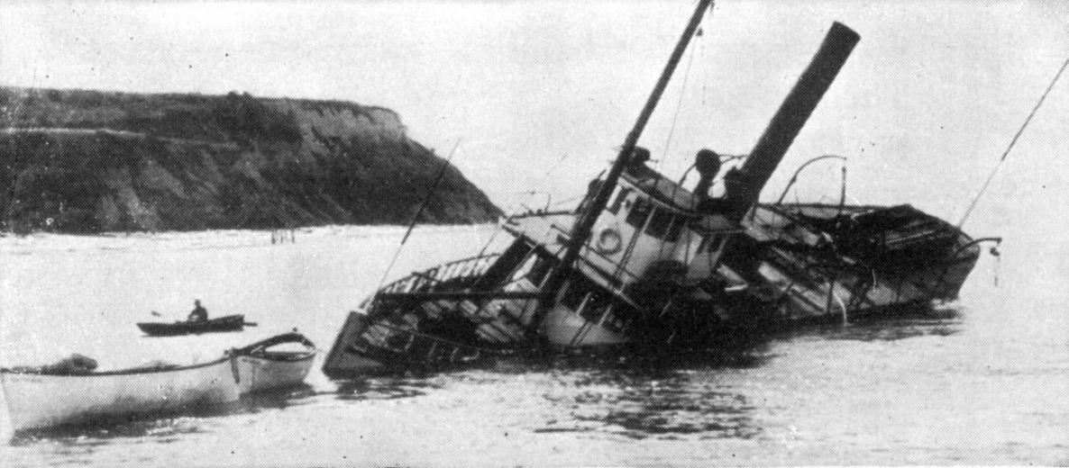 The steamer Dode wrecked and a permanent loss, off Marowstone Point (Whidbey Island, Washington). The ship was stranded there July 7, 2010, so this would be on or shortly after that date.